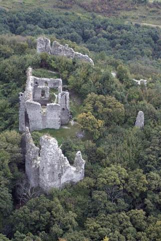 Vinné Castle, Slovakia, aerial photography